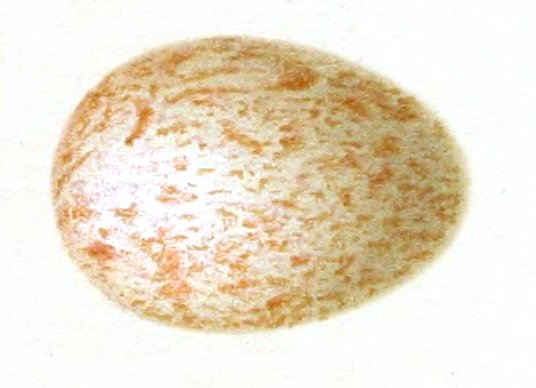 Egg of Cochoa viridis